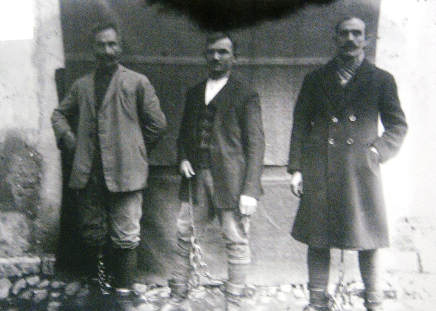 Assassins of the editor of the newspaper "Southern Star", filmed in the prison. Bitola, 1926 This media file is produced by Wikipedian in Residence in Category:Wikipedian in Residence at DARM in 2016.